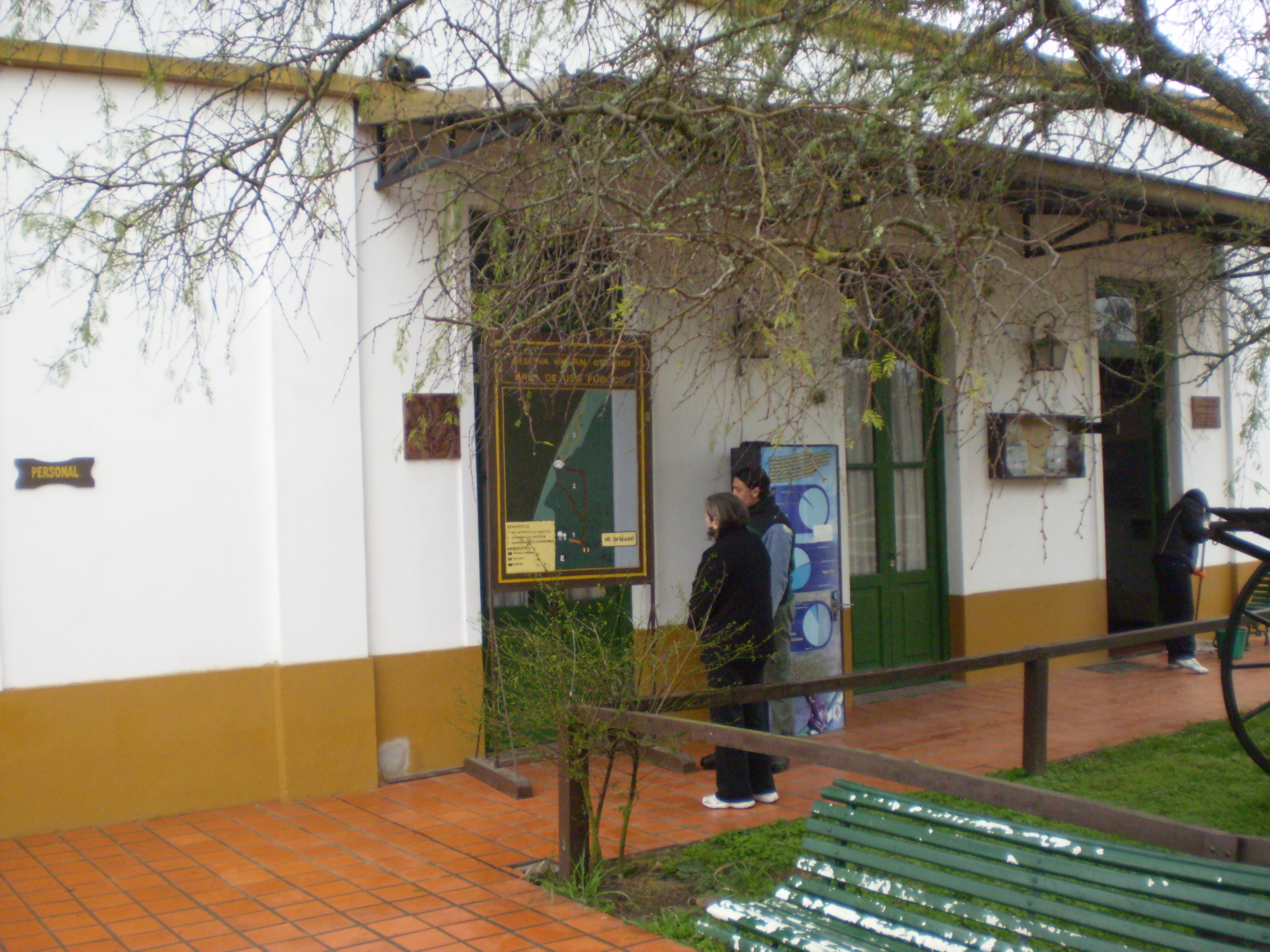 Otamendi wildlife natural reserve, Argentina.